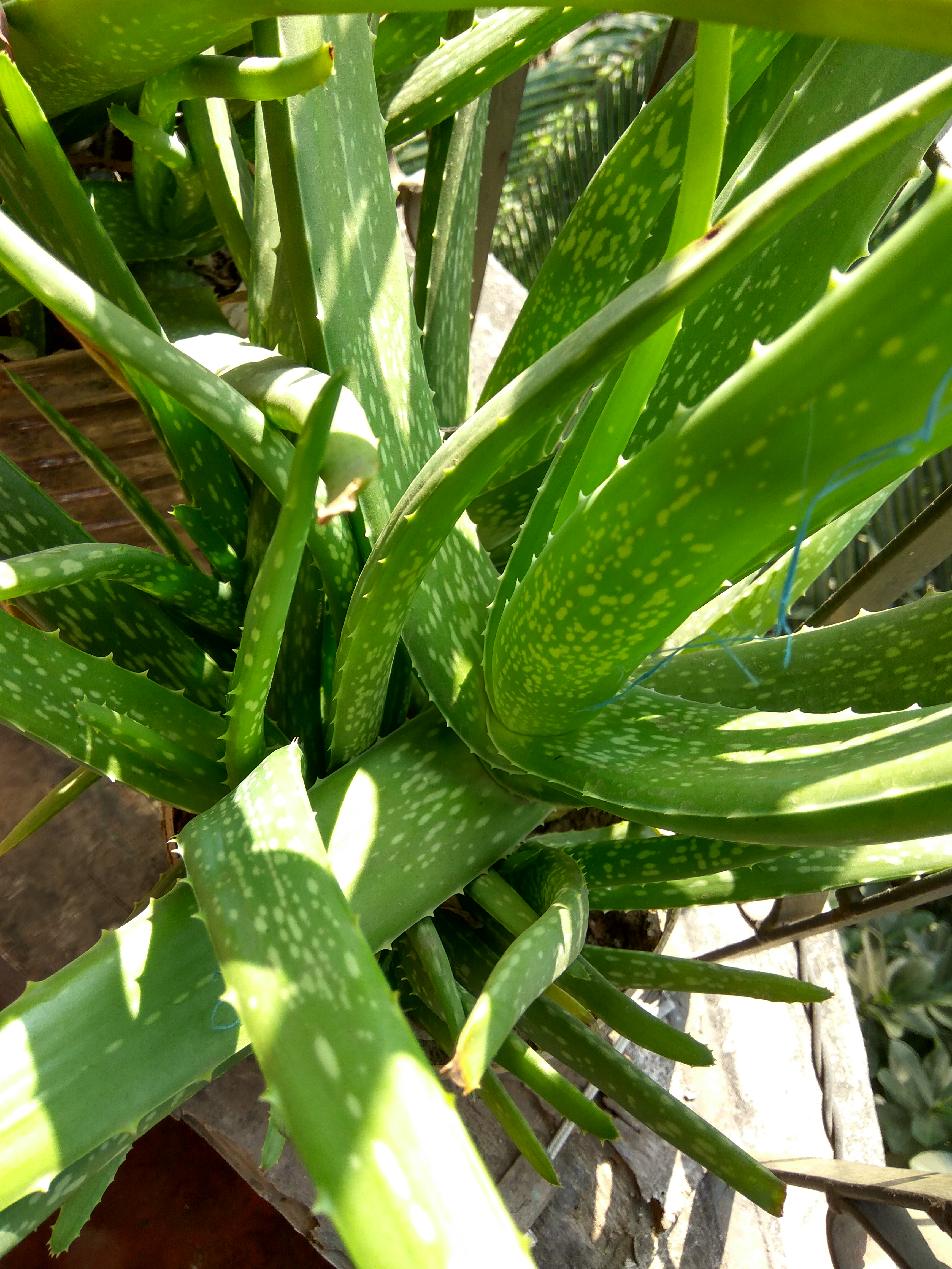 Aloe vera in Bangladesh